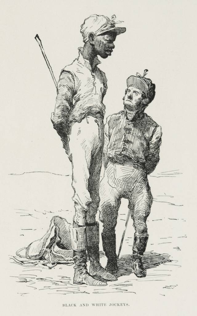 Drawing of black and white jockeys, presumably to illustrate their size differences.